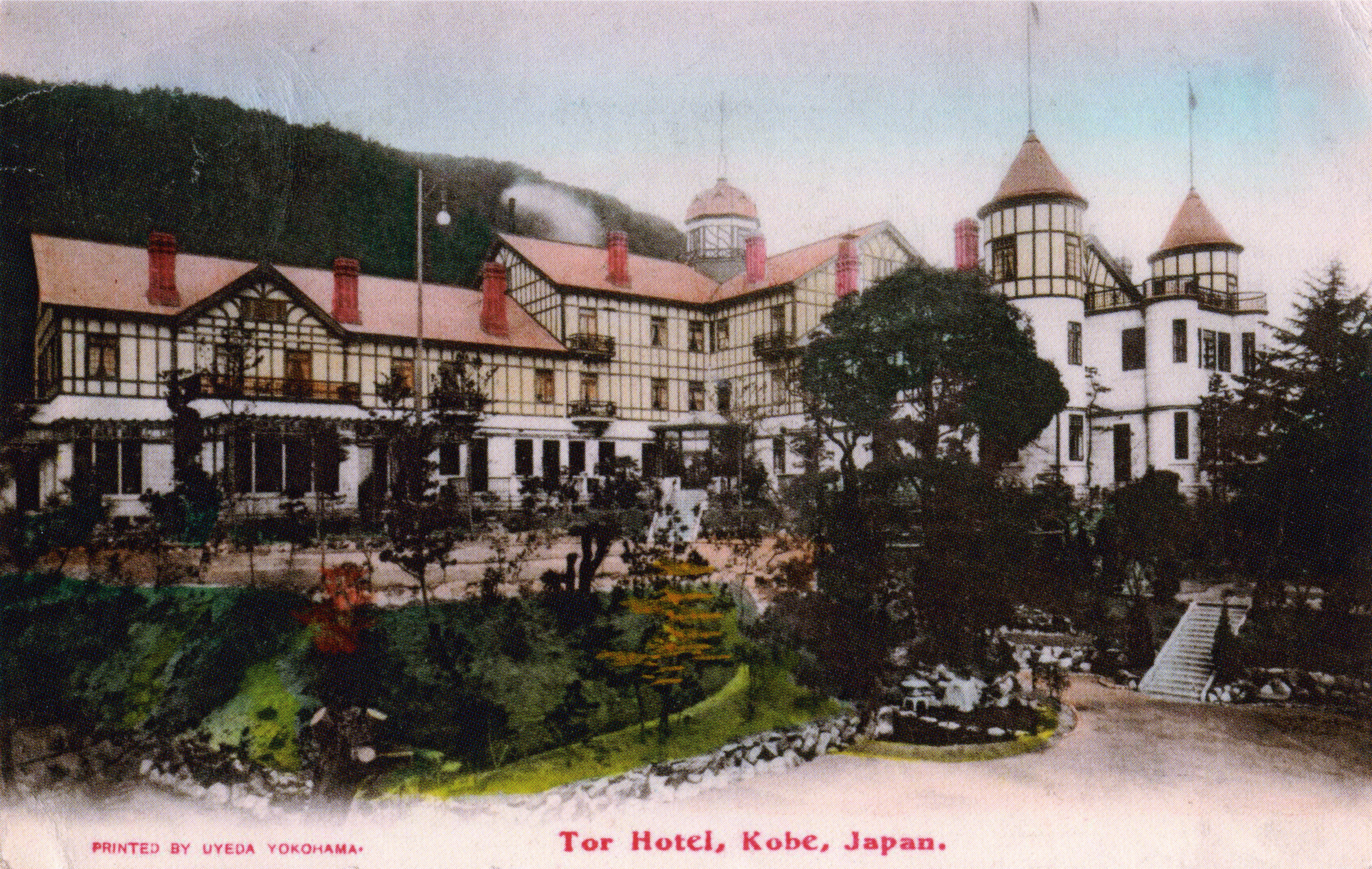 Tor Hotel in Kobe, Hyogo prefecture, Japan. It was built in 1908, and lost in 1950. Design by Kikutaro Shimoda.